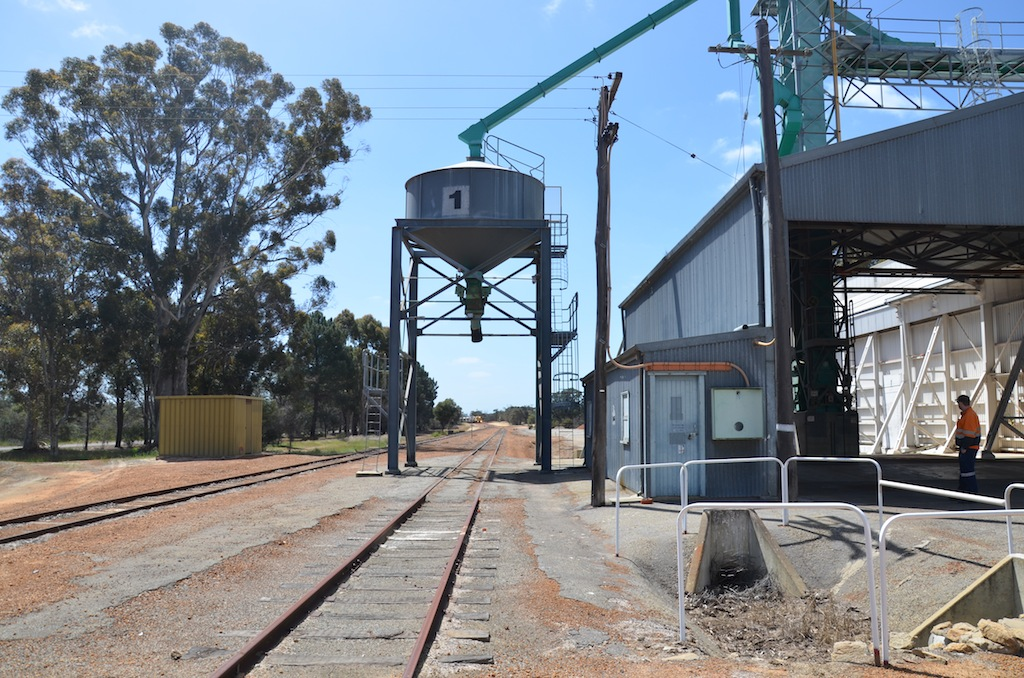 CBH grain silos at Yealering, Western Australia, from the south